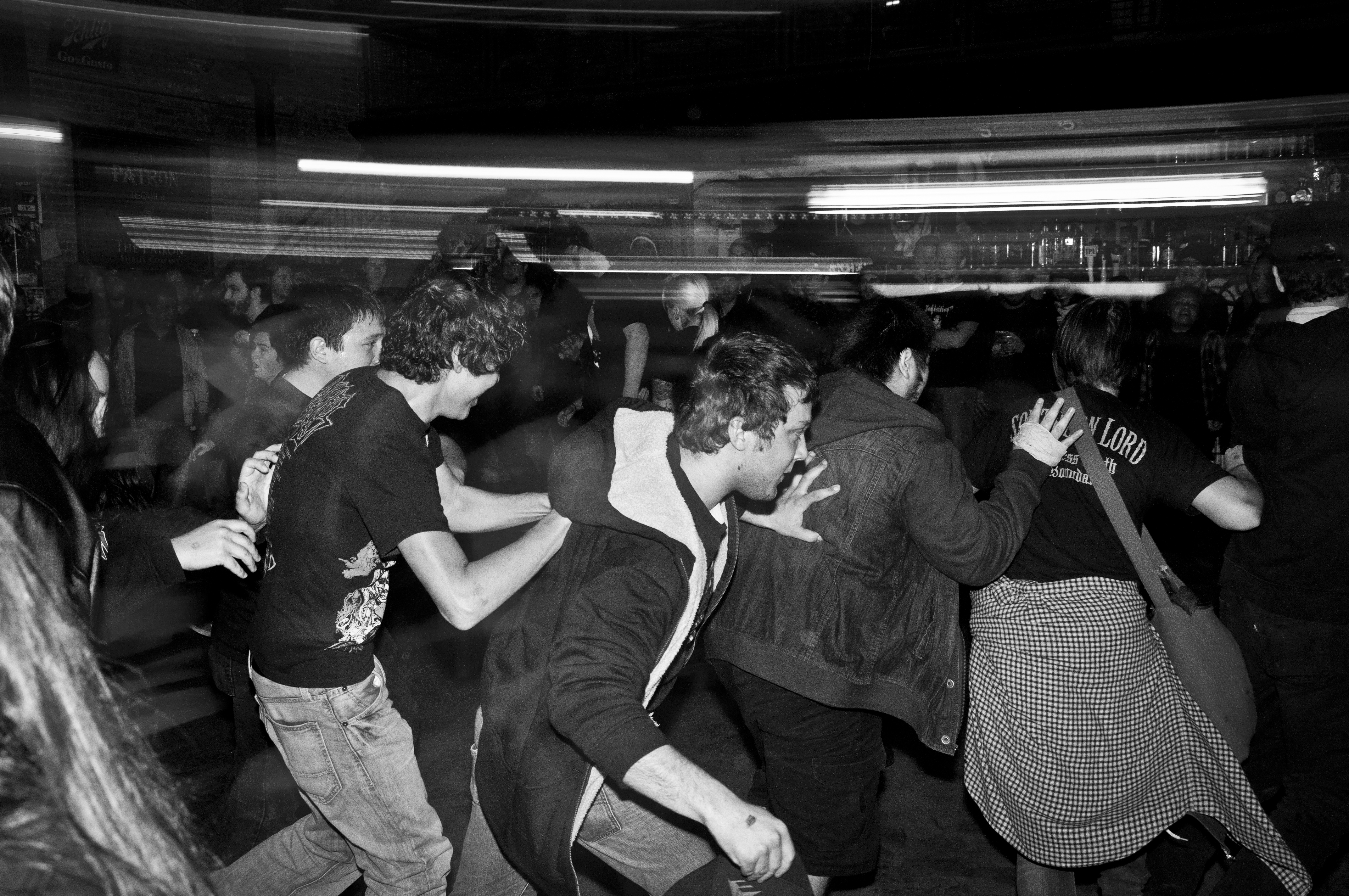 Toxic Holocaust live in Chicago, 2011